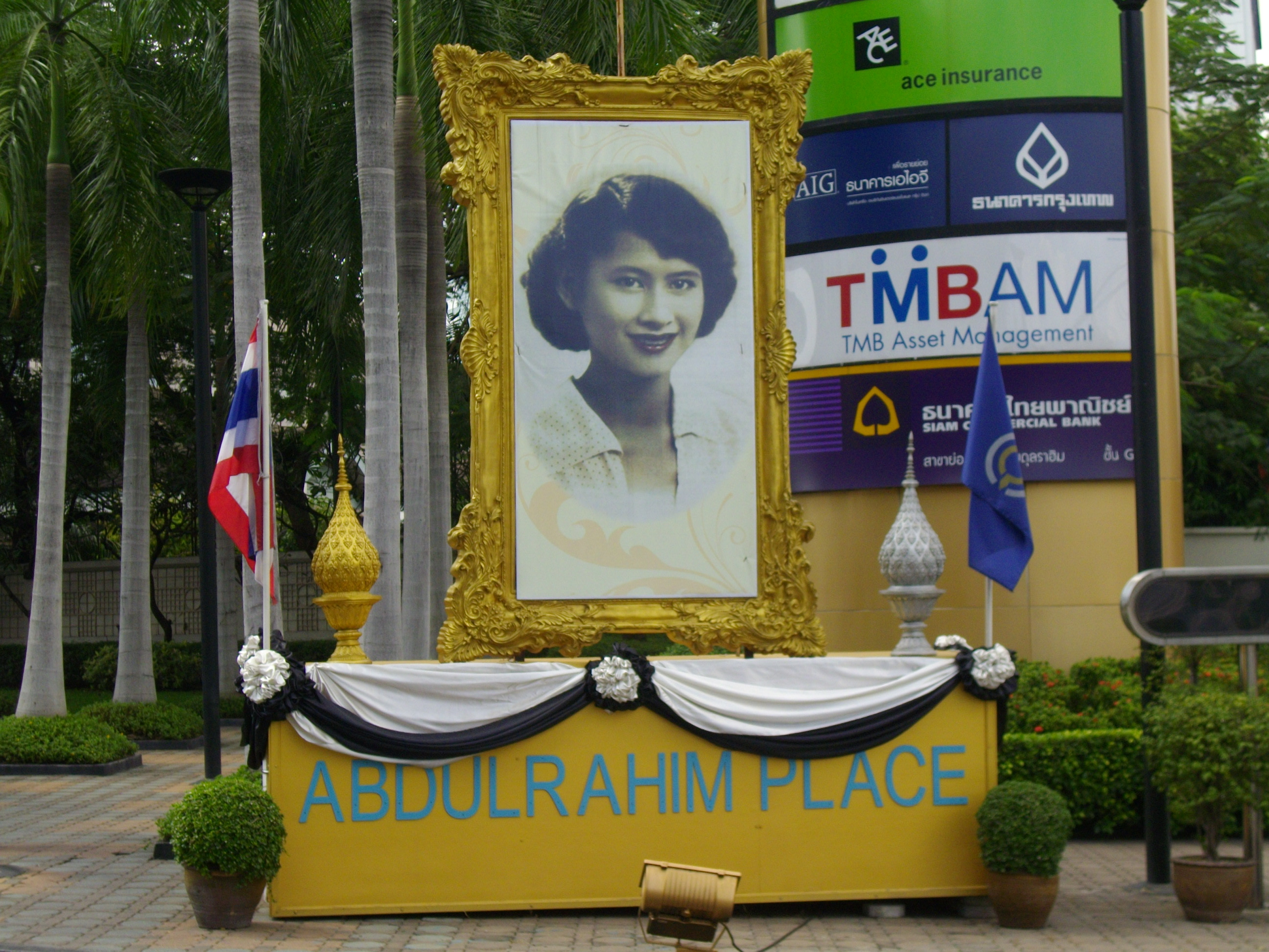 A picture of HRH Princess Galyani Vadhana with Thai flag and her personal flag, Drak blue with her royal monogram, in front of Abdulrahim Place, Near Lumphini Park, Bangkok